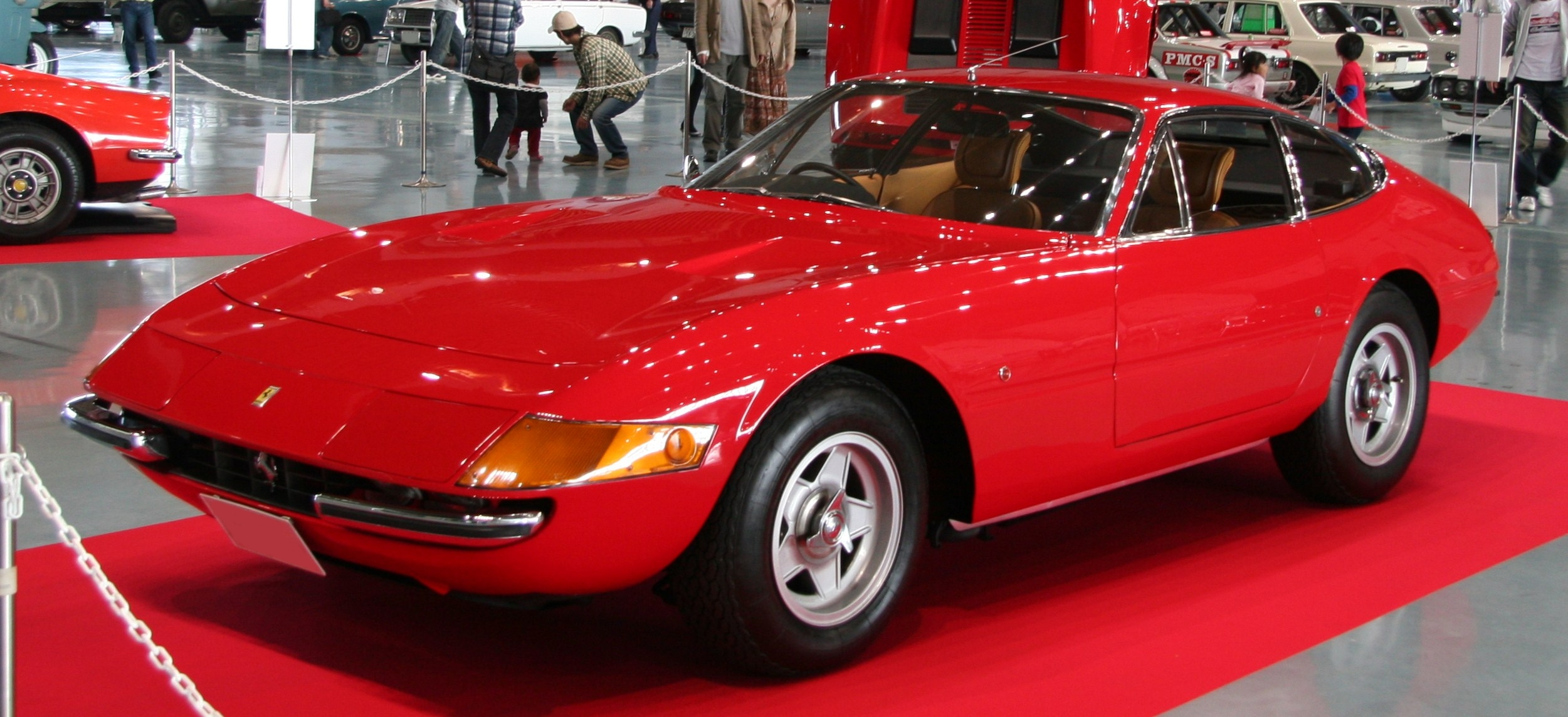 Ferrari Daytona